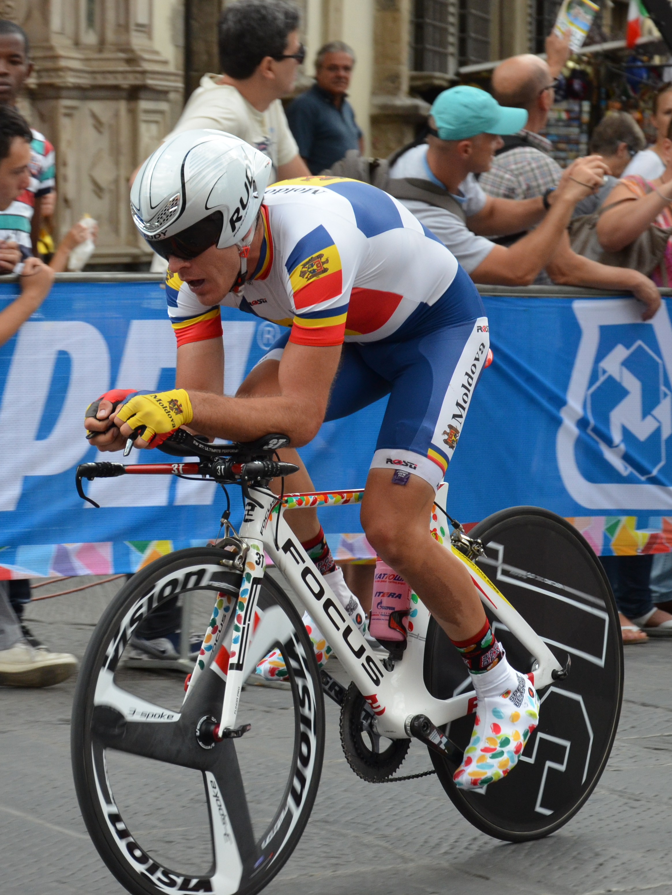 Tvetcov Serghei Uci Road World Championships Toscana Italy 2013 Florence